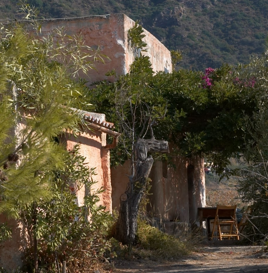 Many of the scenes of the Oscar-winning film "Il Postino" were shot in Pollara on the Italian island of Salina. This is the house that served as poet Pablo Neruda's Italian retreat in the film.